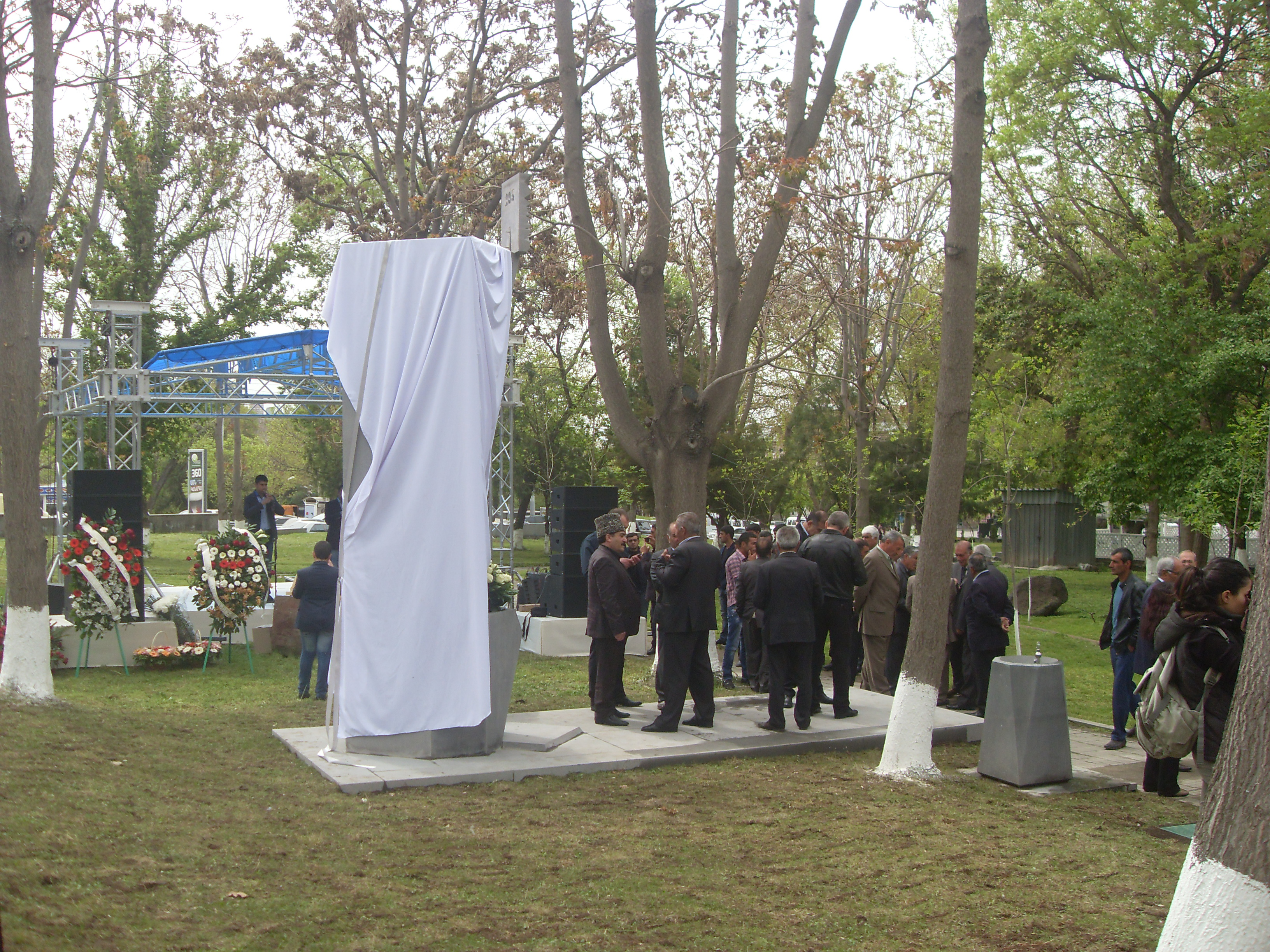 A monument to memory of Yezidi victims. Yerevan, Armenia